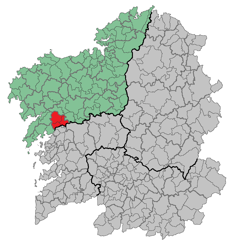 Region of Galicia (Spain)Based in: Image:Location of Padrón.png Source: Designed by Leoplus. Original picture, designed by Caiser over a work made by Alyssalover.